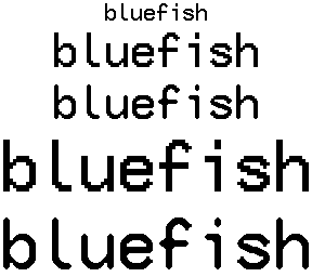 Example of the EPX image scaling algorithm applied to bitmap font rendering. The font used is James M. Knoble's "neep", size 12x24. From top to bottom: a) original font size; b) nearest-neighbor 2x scaling; c) EPX 2x scaling; d) nearest-neighbor 3x scaling; e) EPX 3x scaling. Note: since EPX doesn't add colors to the original bitmap, this image is entirely composed of black and white pixels.